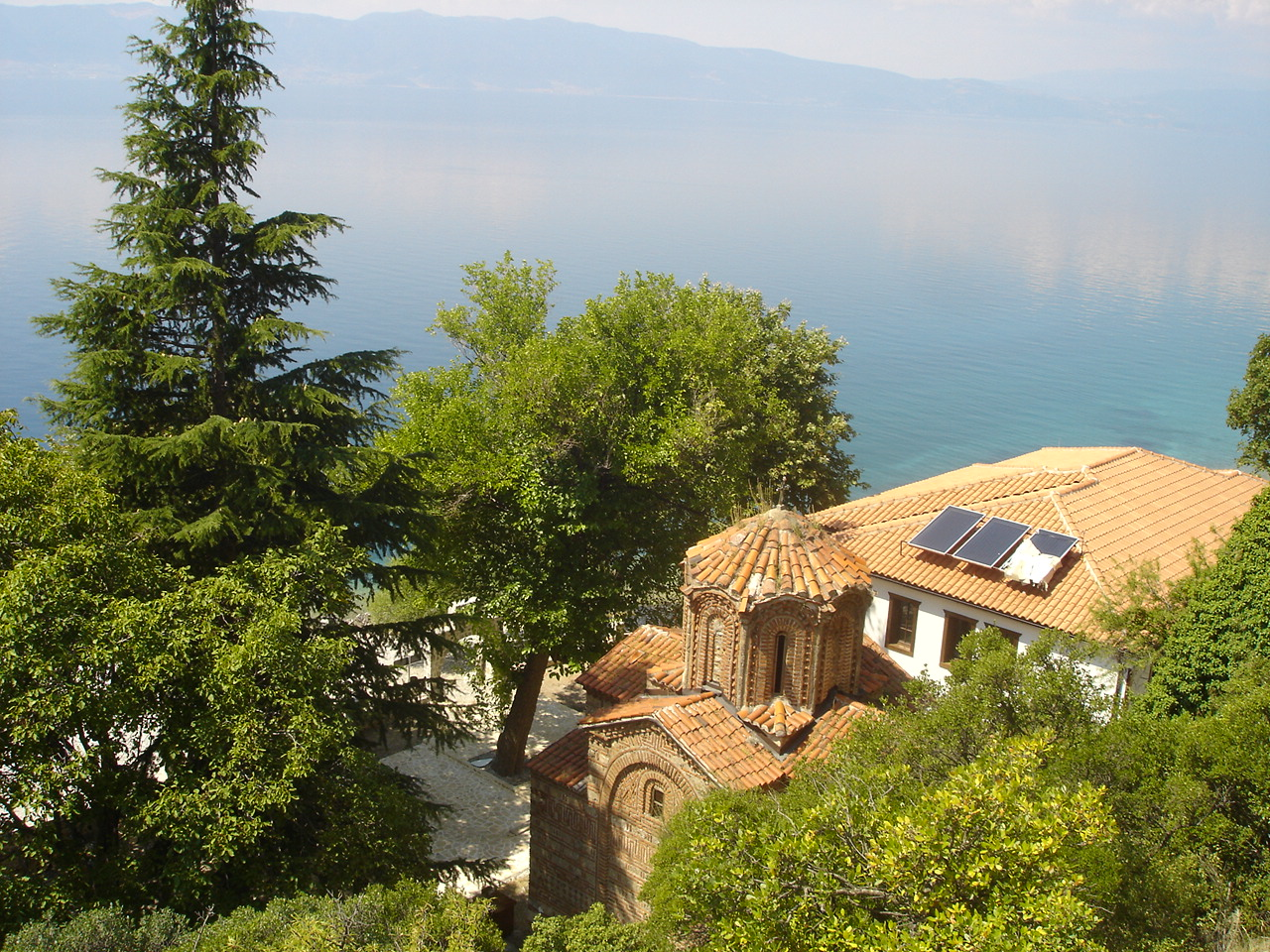 The church of Holly Mother in Zaum monastery on the shore of Ohrid Lake, Macedonia